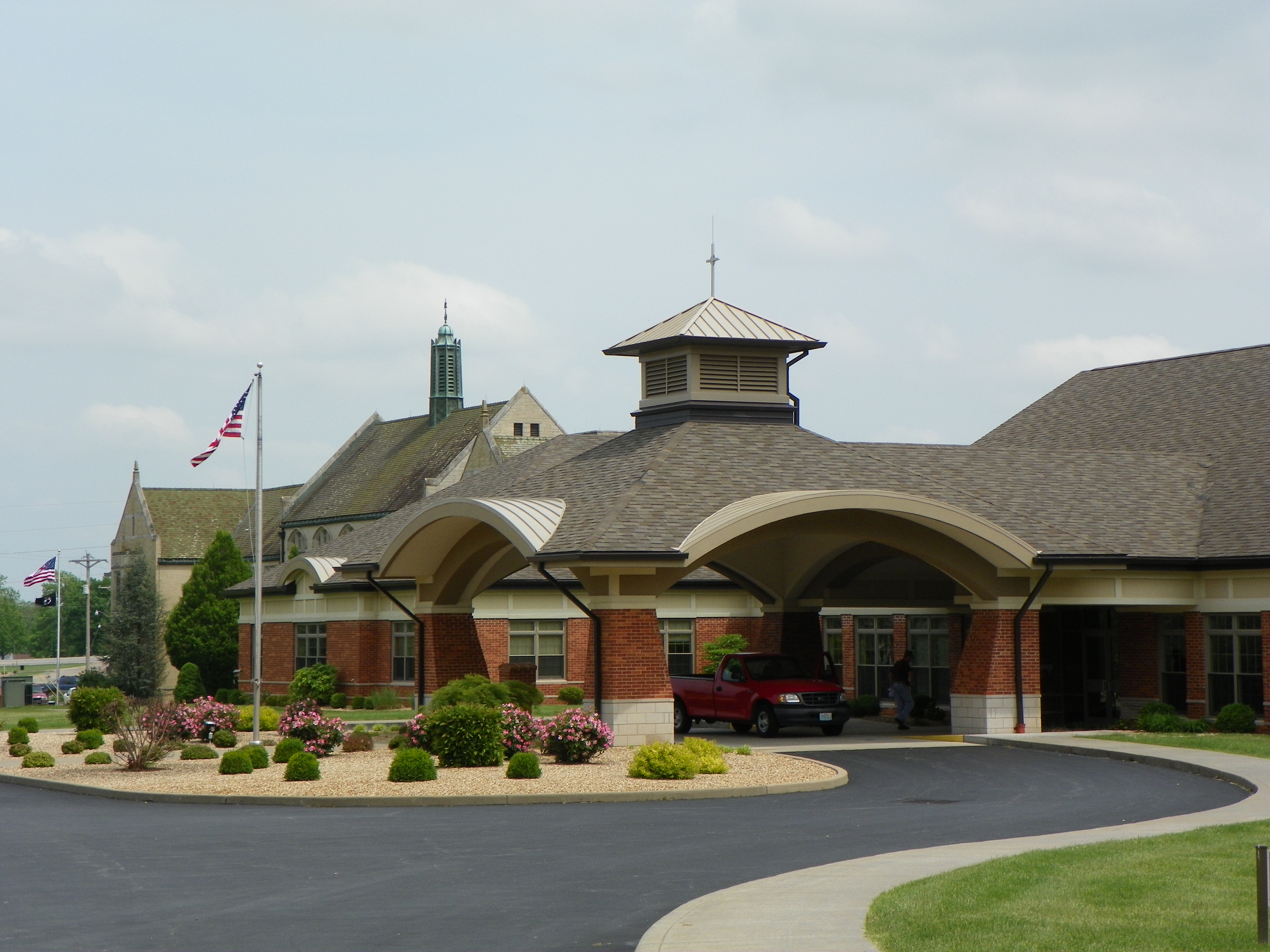 Apostle of Charity Residence, St. Mary's of the Barrens Catholic Church (Perryville, Missouri). This retirement home serves retired priests.